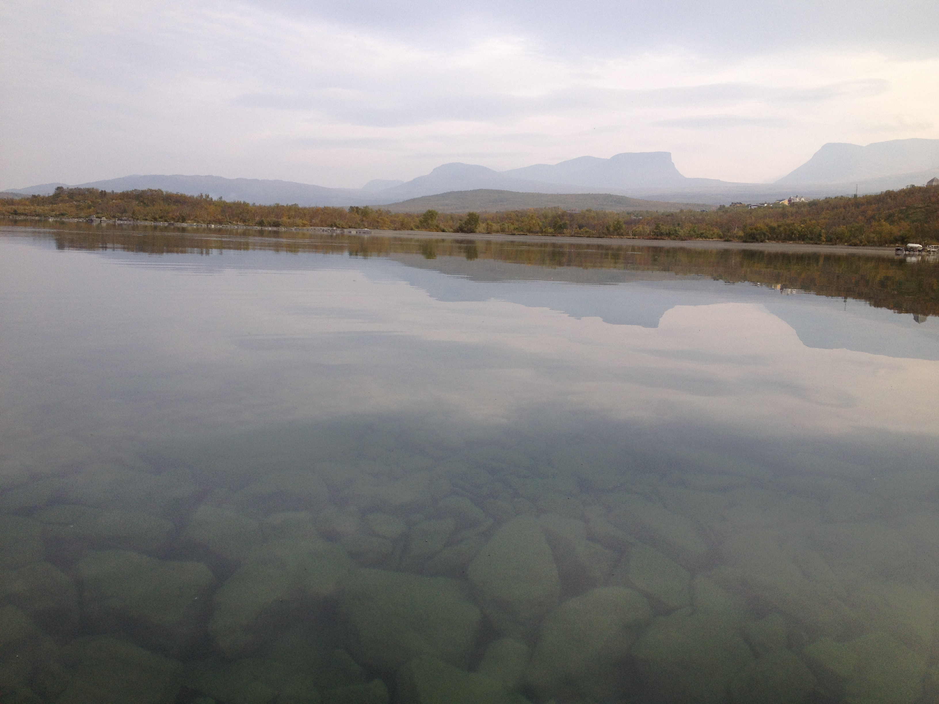 Lapporten from Lake Torneträsk